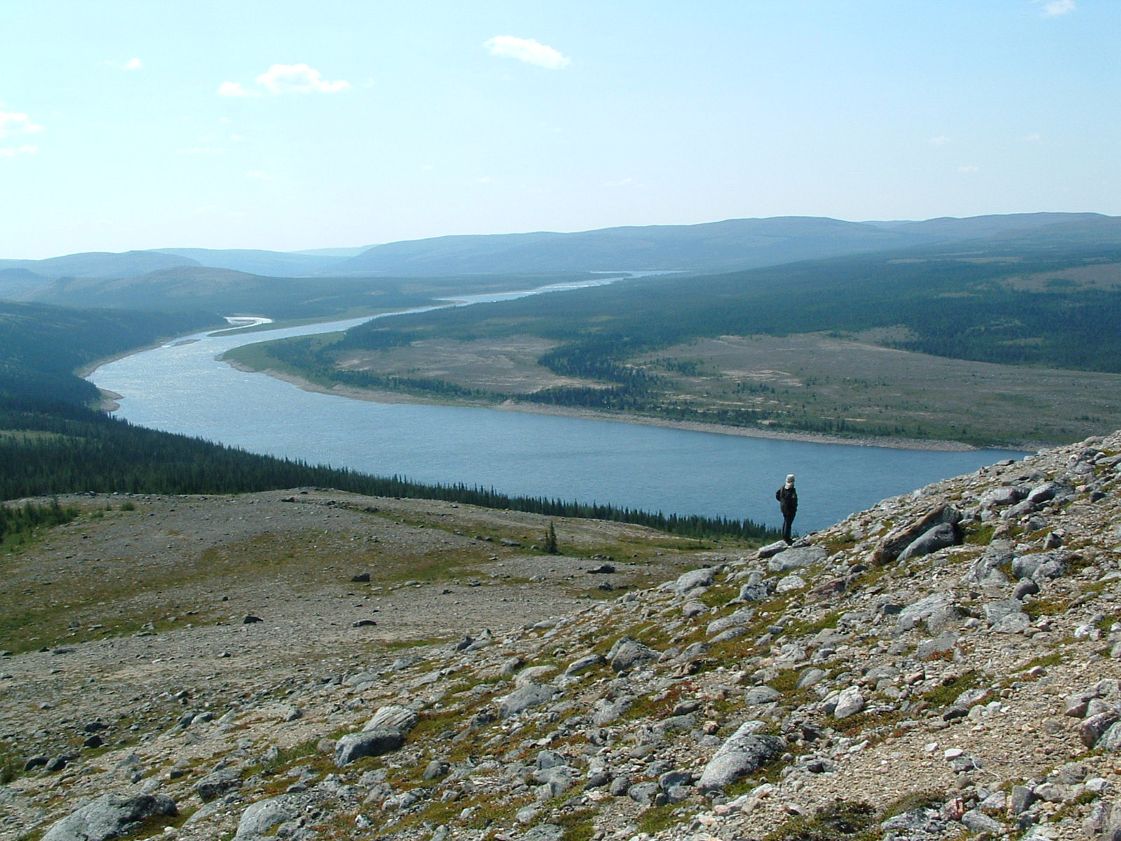 View of George River from Pyramid Peak